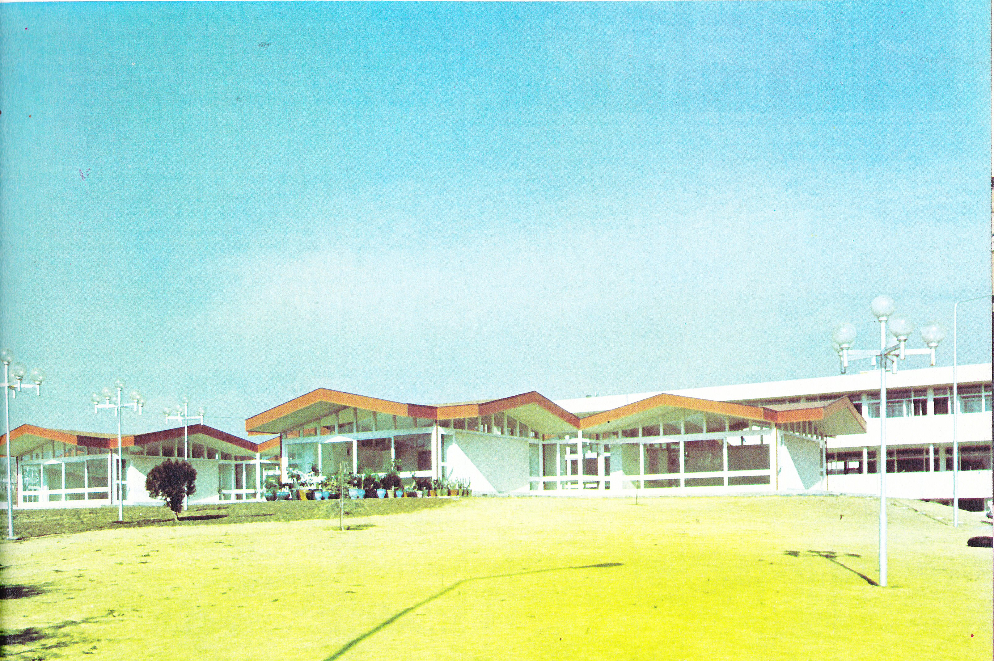 Iran, Shir khaargah, nursling houses